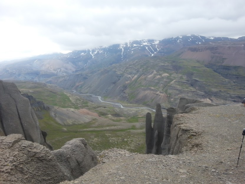 Tröllakrókar